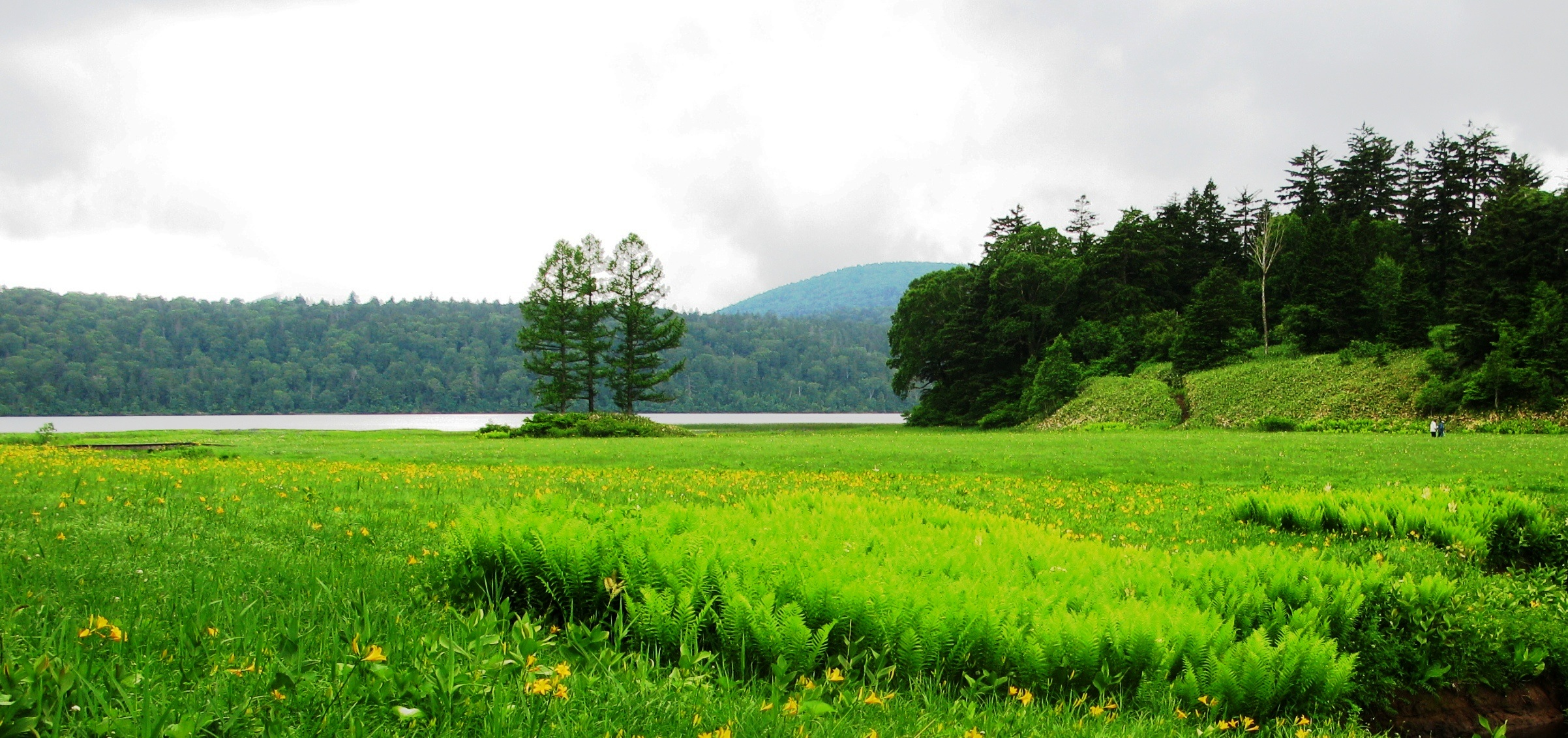 Oe-shitsugen moor, Hinoemata village, Fukushima pref., Japan